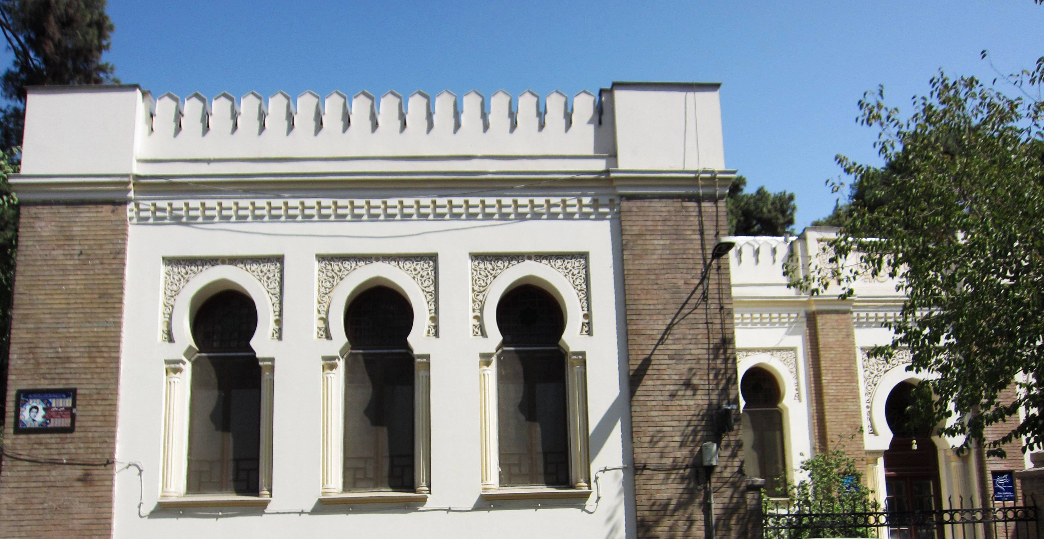 Professor Adl house in Tehran. Built in Pahlavi era and currently used as the building of Academy and institute of art.